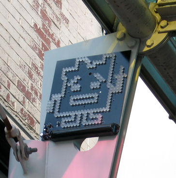 Aqua Teen Hunger Force promotional LED placed on a street in Cambridge, Massachusetts